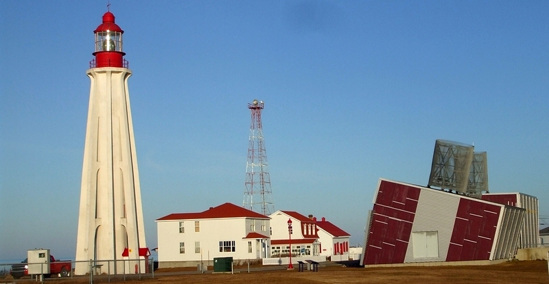 Site historique maritime de la Pointe-au-Père ("The maritime historic site of the Pointe-au-Père") in Quebec, Canada.